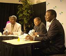 Former Afican presidents at VOA (from left) Antonio Manuel Mascarenhas Monteiro of Cape Verde, Ketumile Masire of Botswana and Mahamane Ousmane of Niger (VOA photo)